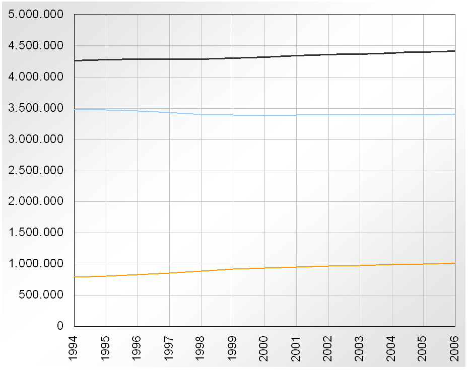 Population of the metropolitan region Berlin/Brandenburg in Germany. Overall=black, Berlin=blue, parts of Brandenburg=orange. Source: [2]